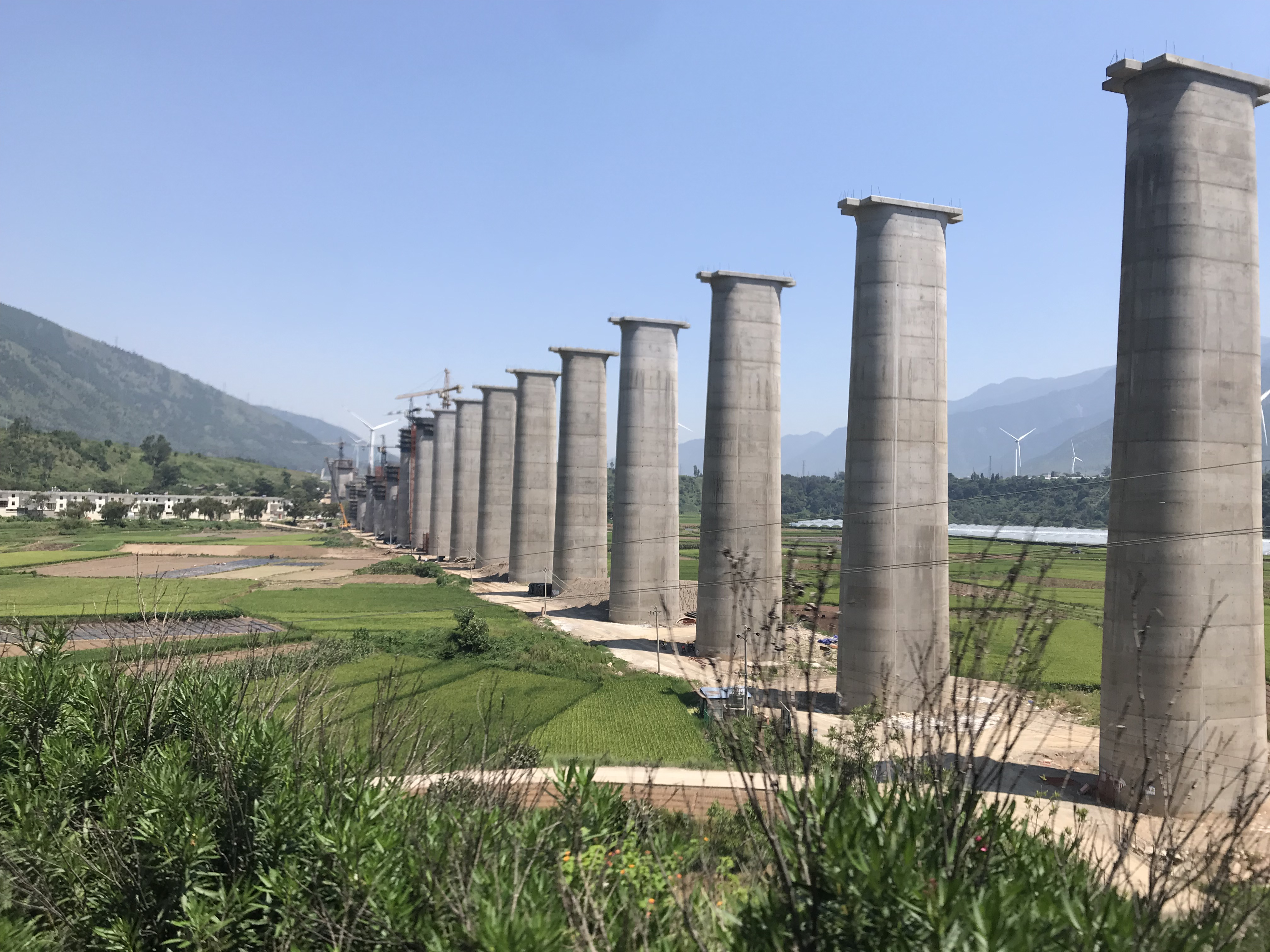 201908 Emei-Miyi Railway Construction in Dechang